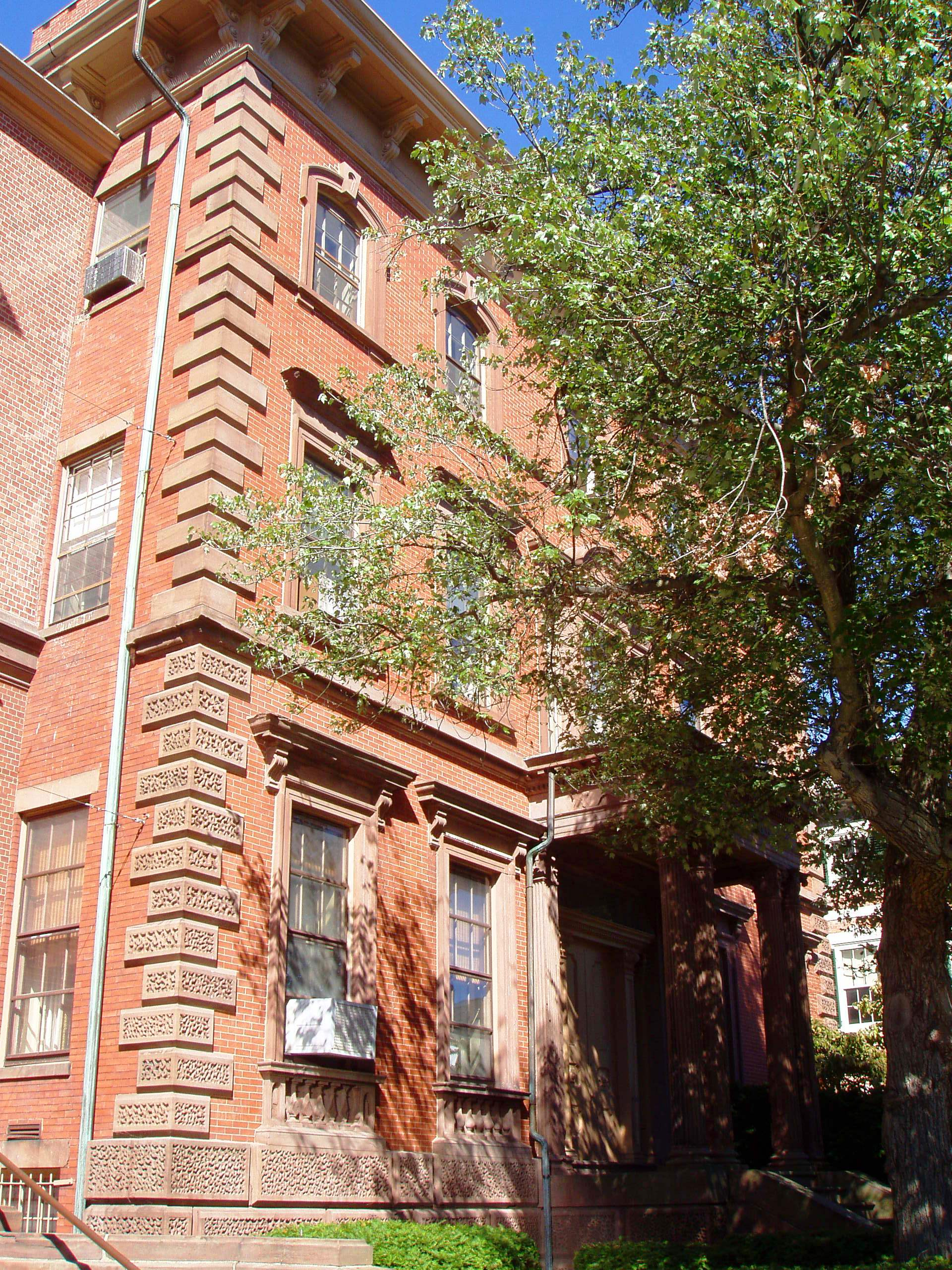 John Tucker Daland House - Salem, Massachusetts. Architect Gridley James Fox Bryant; built 1851-1852. Now part of the Peabody Essex Museum. Photograph taken by me, September 2005.